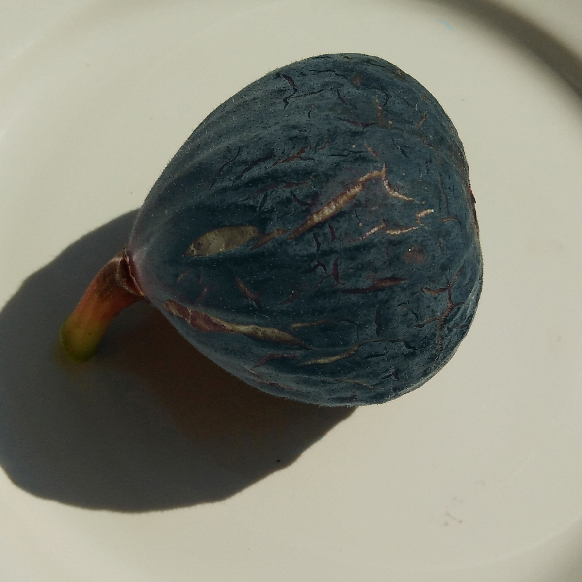 Main crop fig of the Ficus carica variety Pastilière in Vienna.